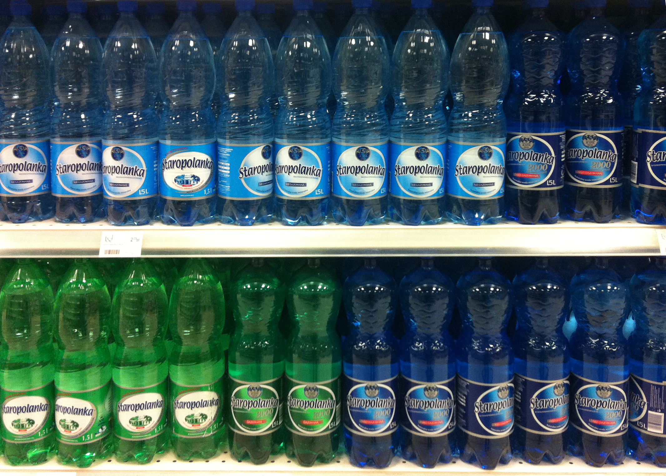 Bottled polish mineral water Staropolanka on shop shelves.